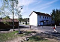 Image of Opaker Skole in Opakermoen, Norway